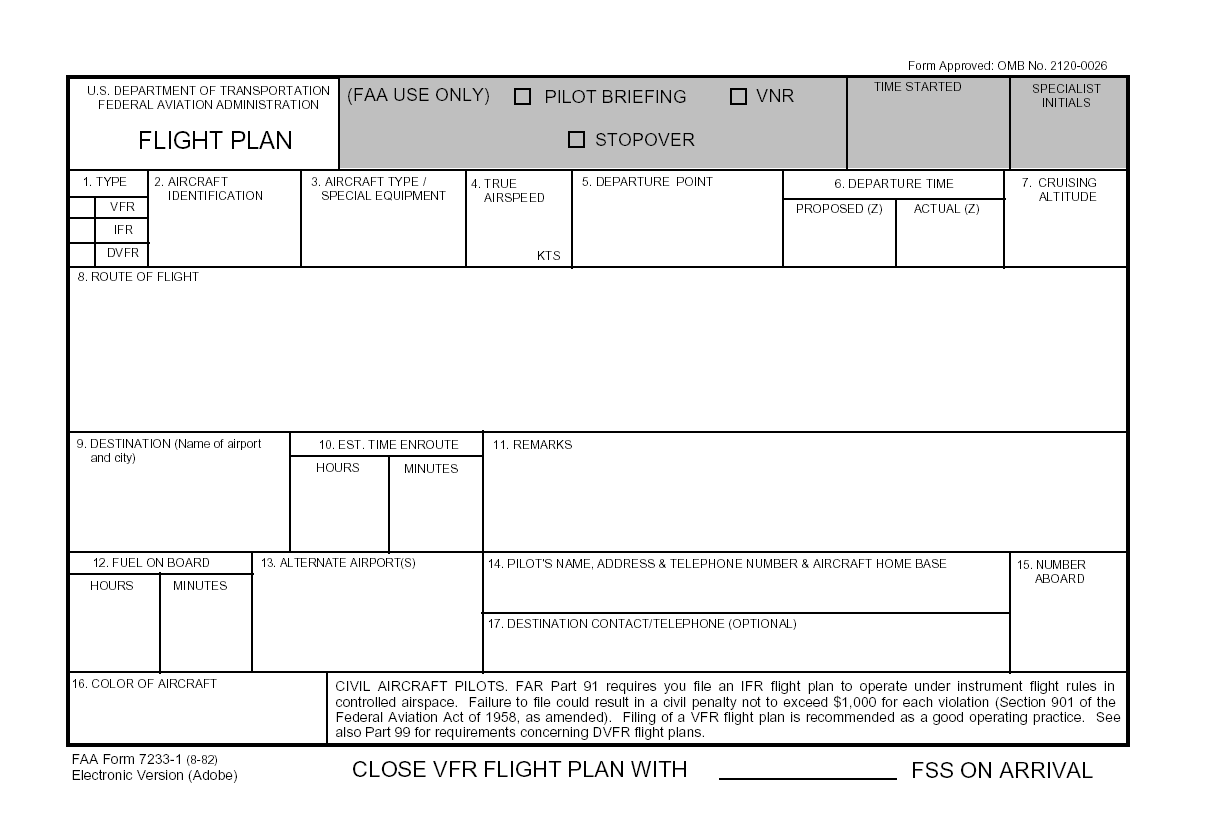 Excerpt from Standard FAA flight plan form 7233-1